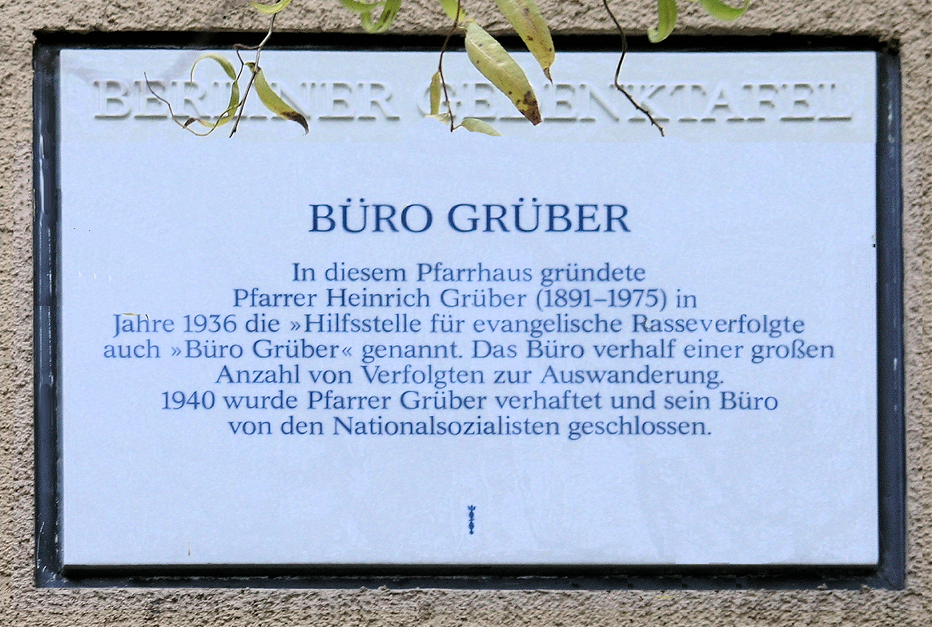 Berlin memorial plaque, Heinrich Grüber, Hortensienstraße 18, Berlin-Lichterfelde, Germany